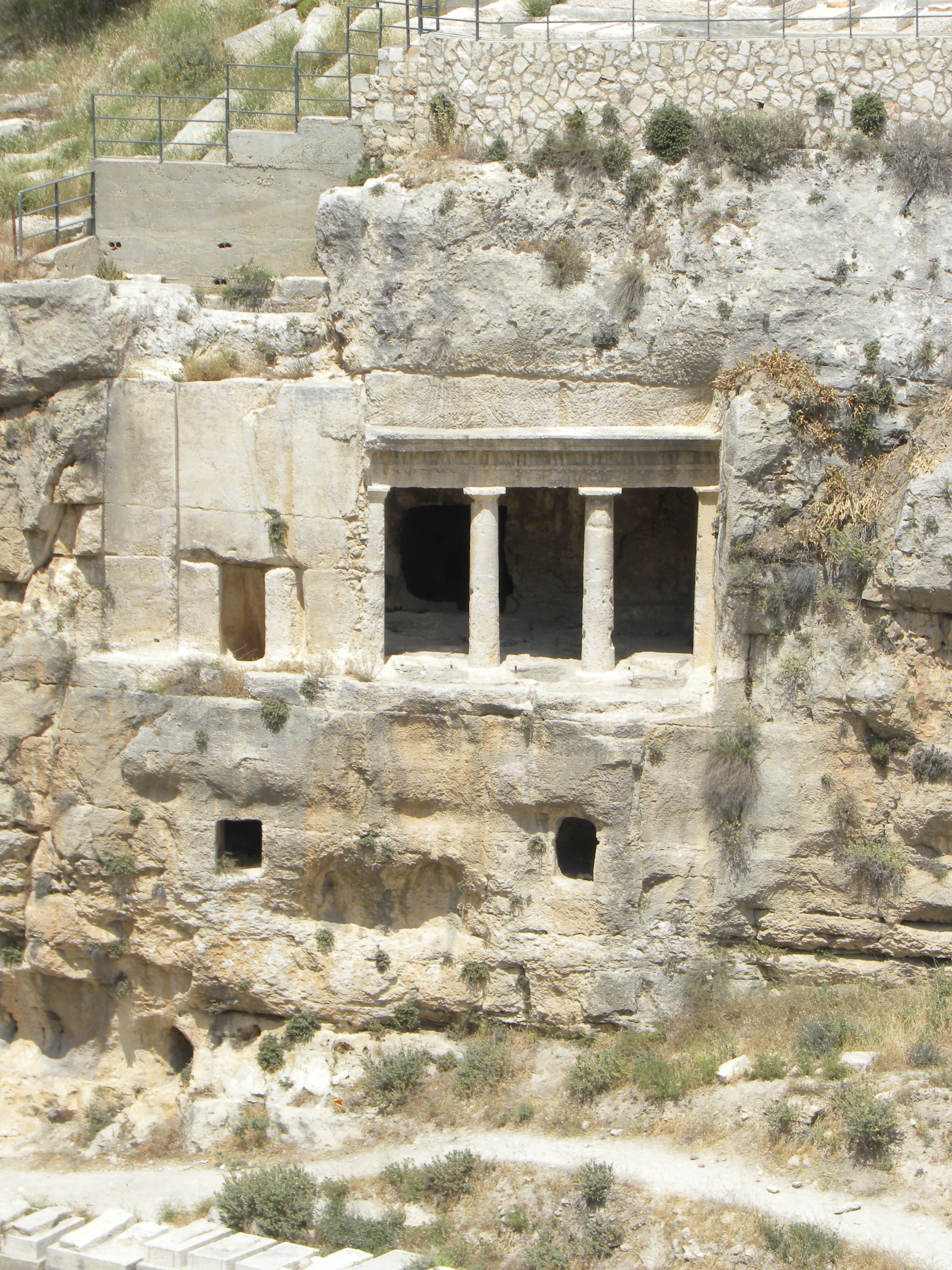 Kidron Valley.